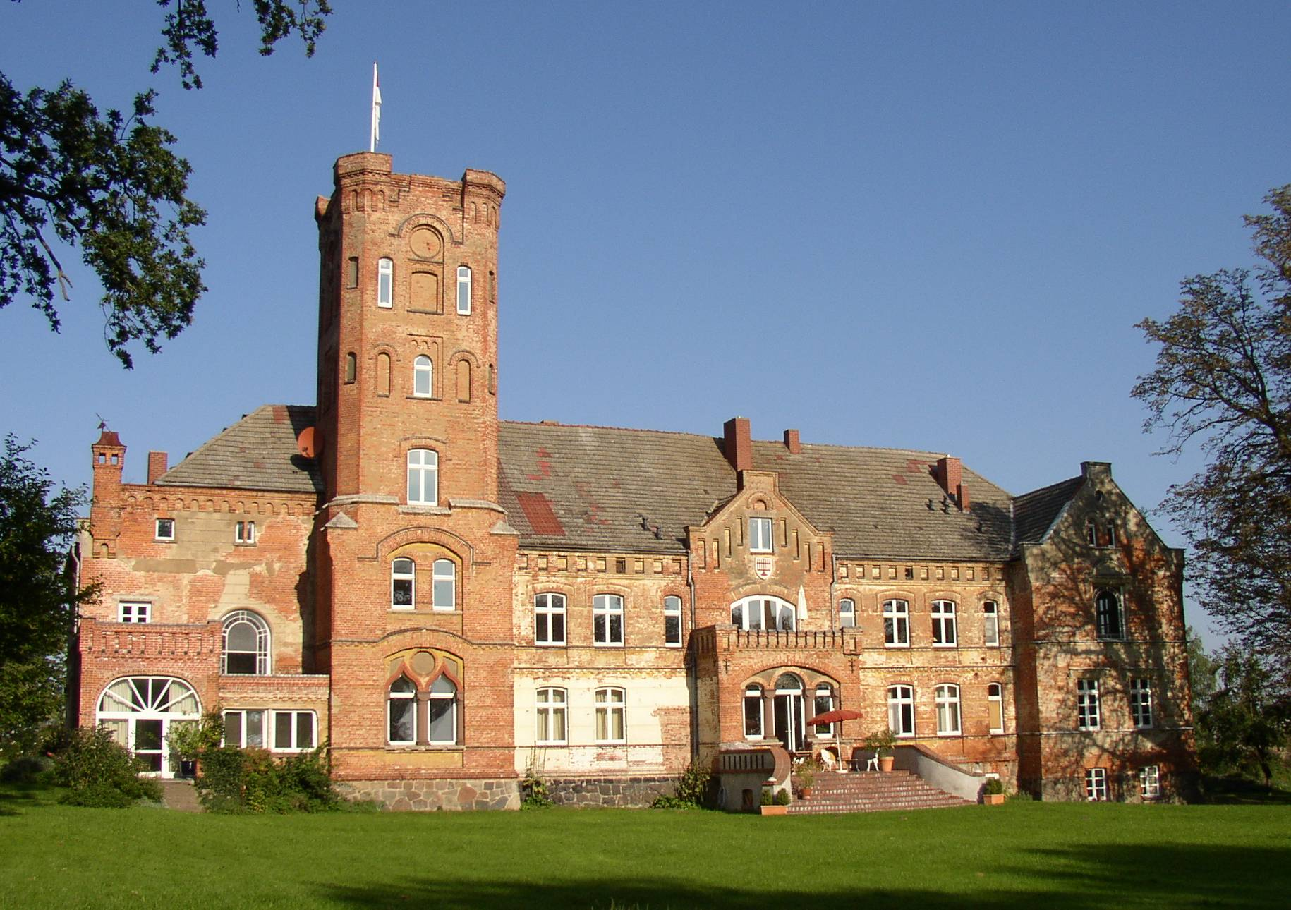 manor house at Lelkendorf manor, Mecklenburg-Western Pomerania, Germany